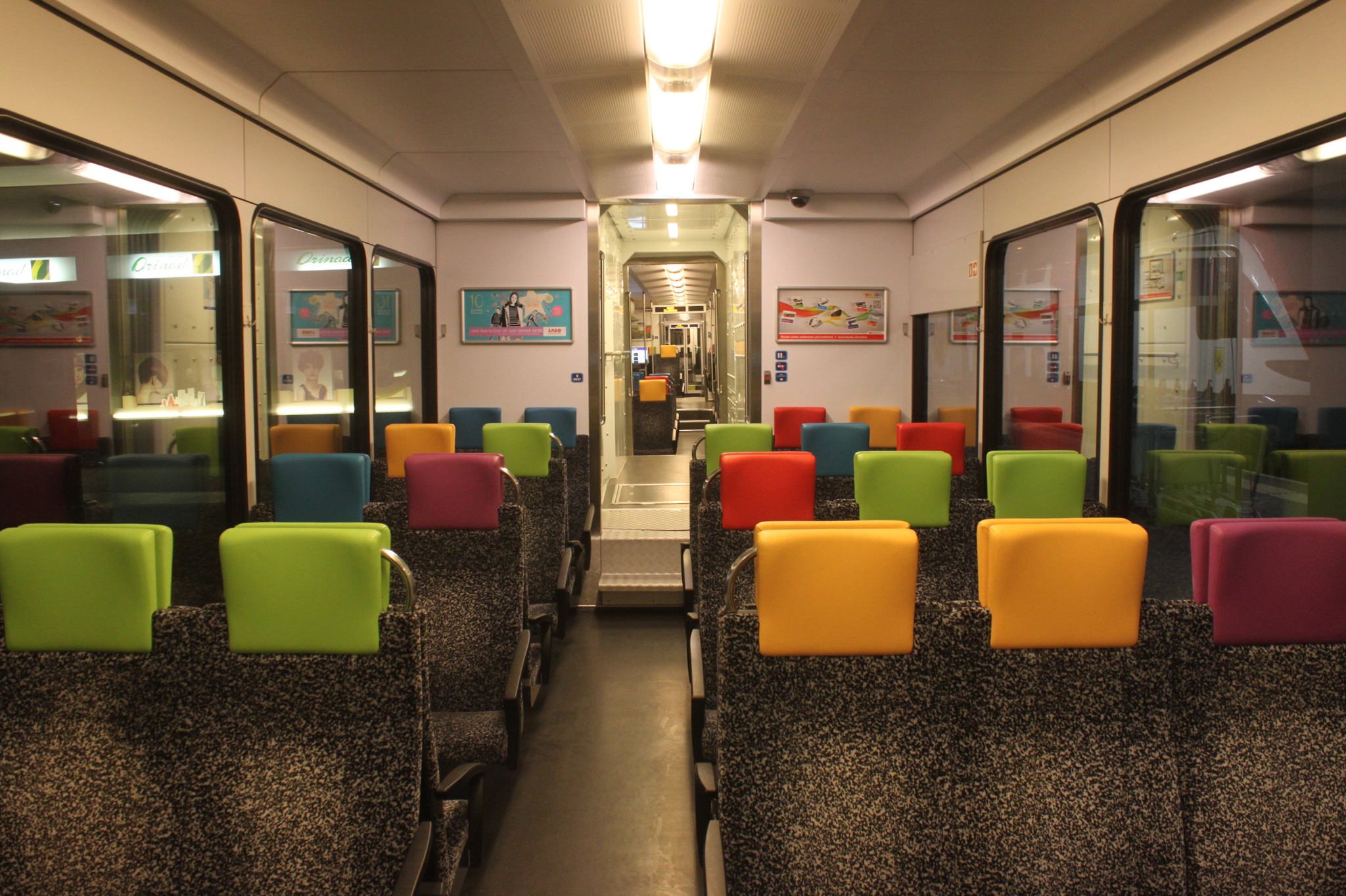 Interior of Thurbo RABe 526 787-7.